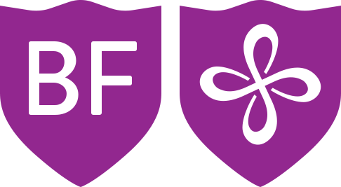 Full, unedited Bright Future logo.